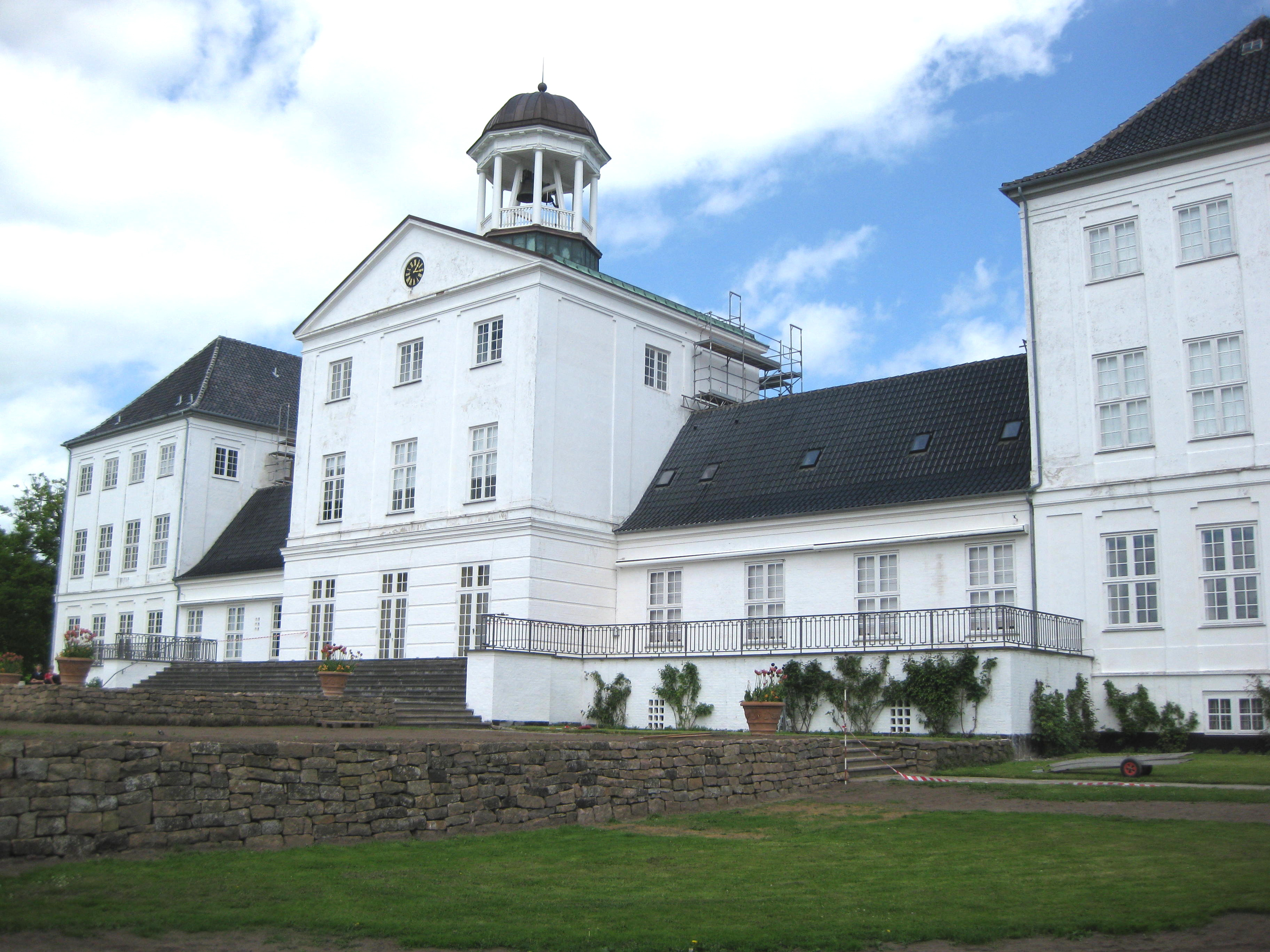 The castle "Gråsten Slot" located nearby the small town "Gråsten" in Southern Jutland, Denmark.